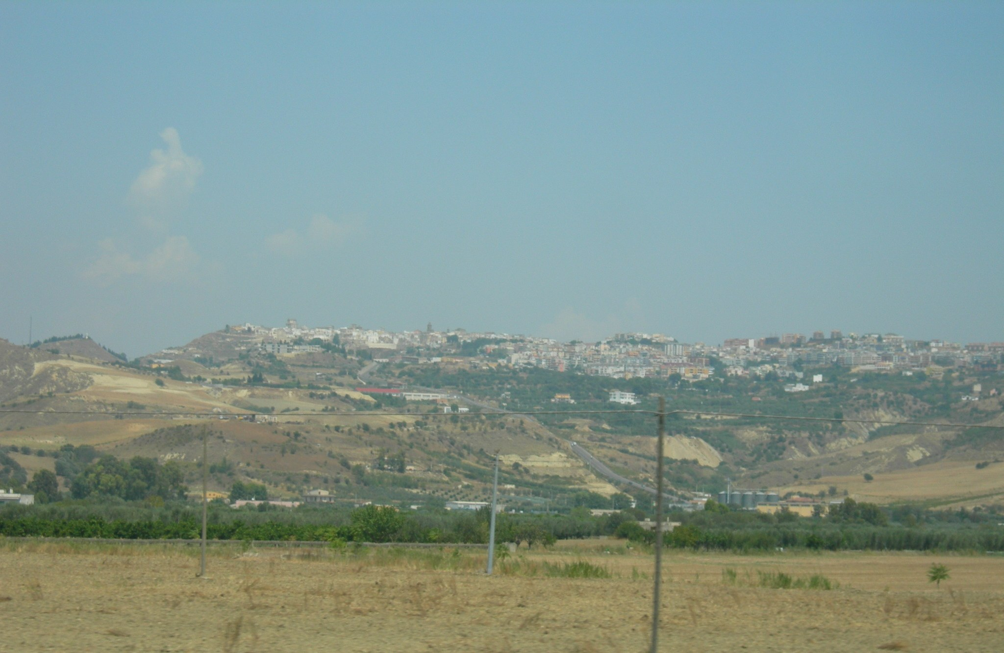 View of Montescaglioso by the 175 road.